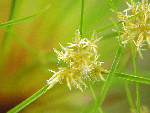 Species: Cyperus papyrus Family: Cyperaceae Image No. 1